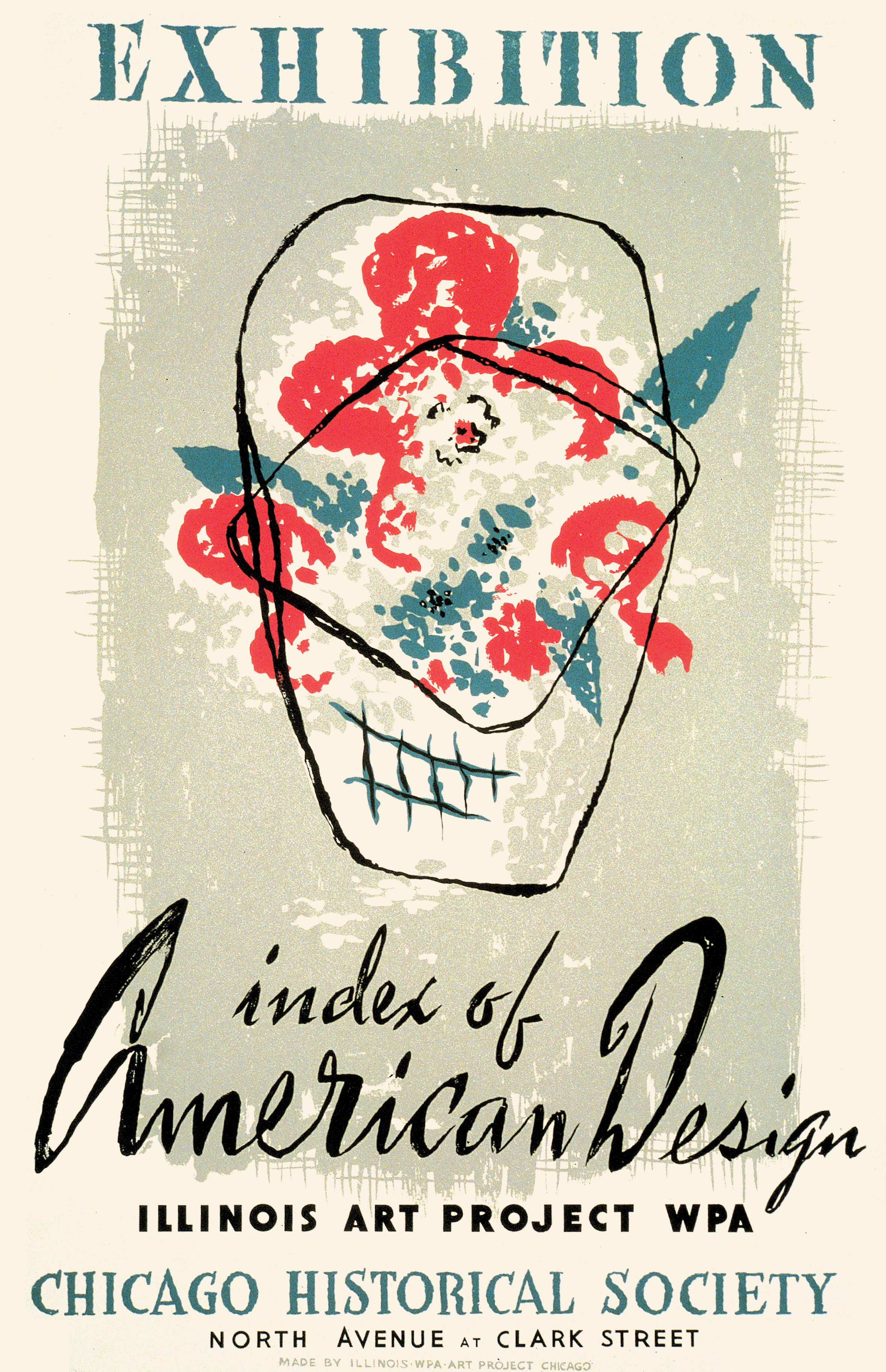 WPA Art Project poster for an exhibit: Index of American Design, Chicago Historical Society 1941